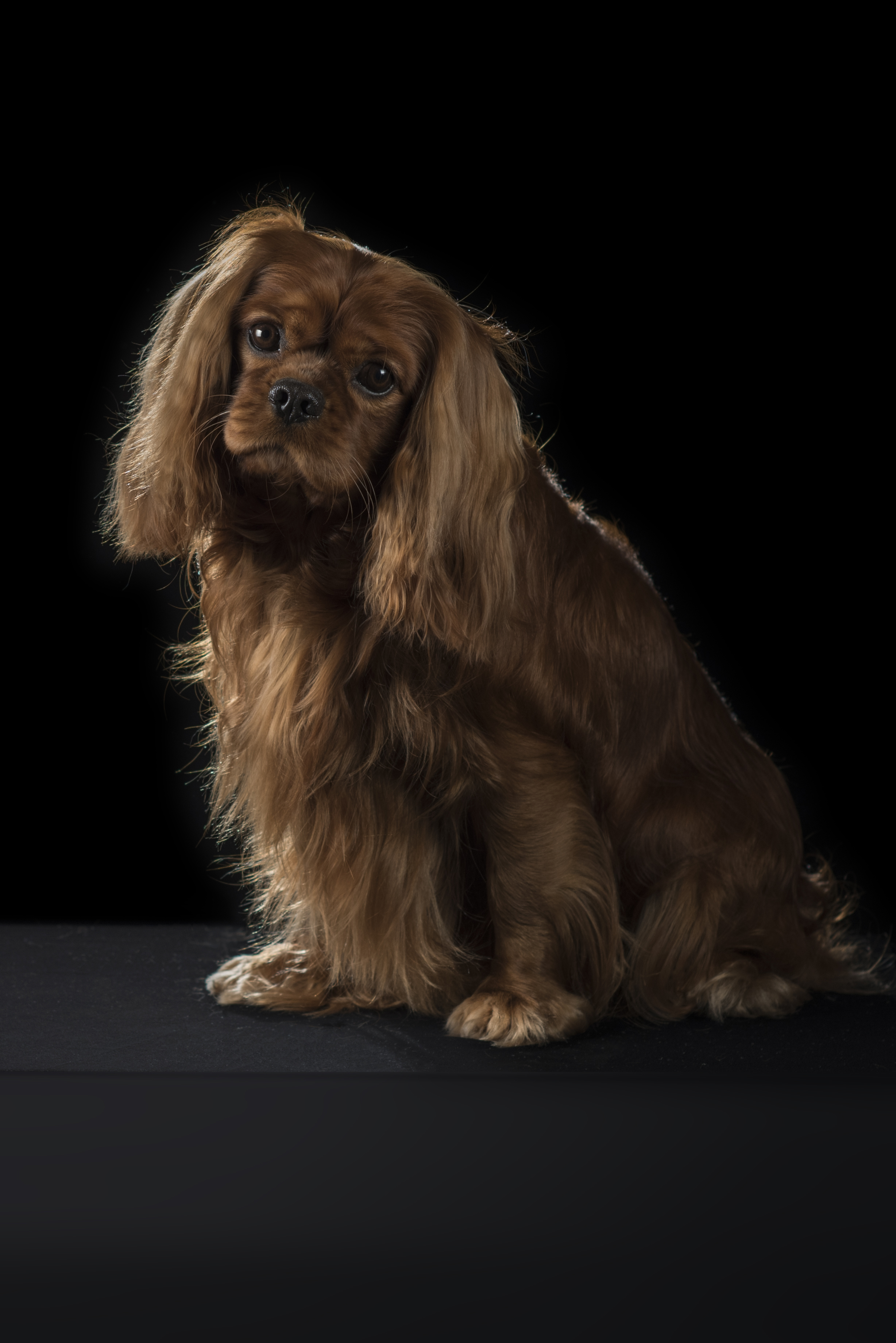 Champion Ruby Cavalier King Charles Spaniel against a black background